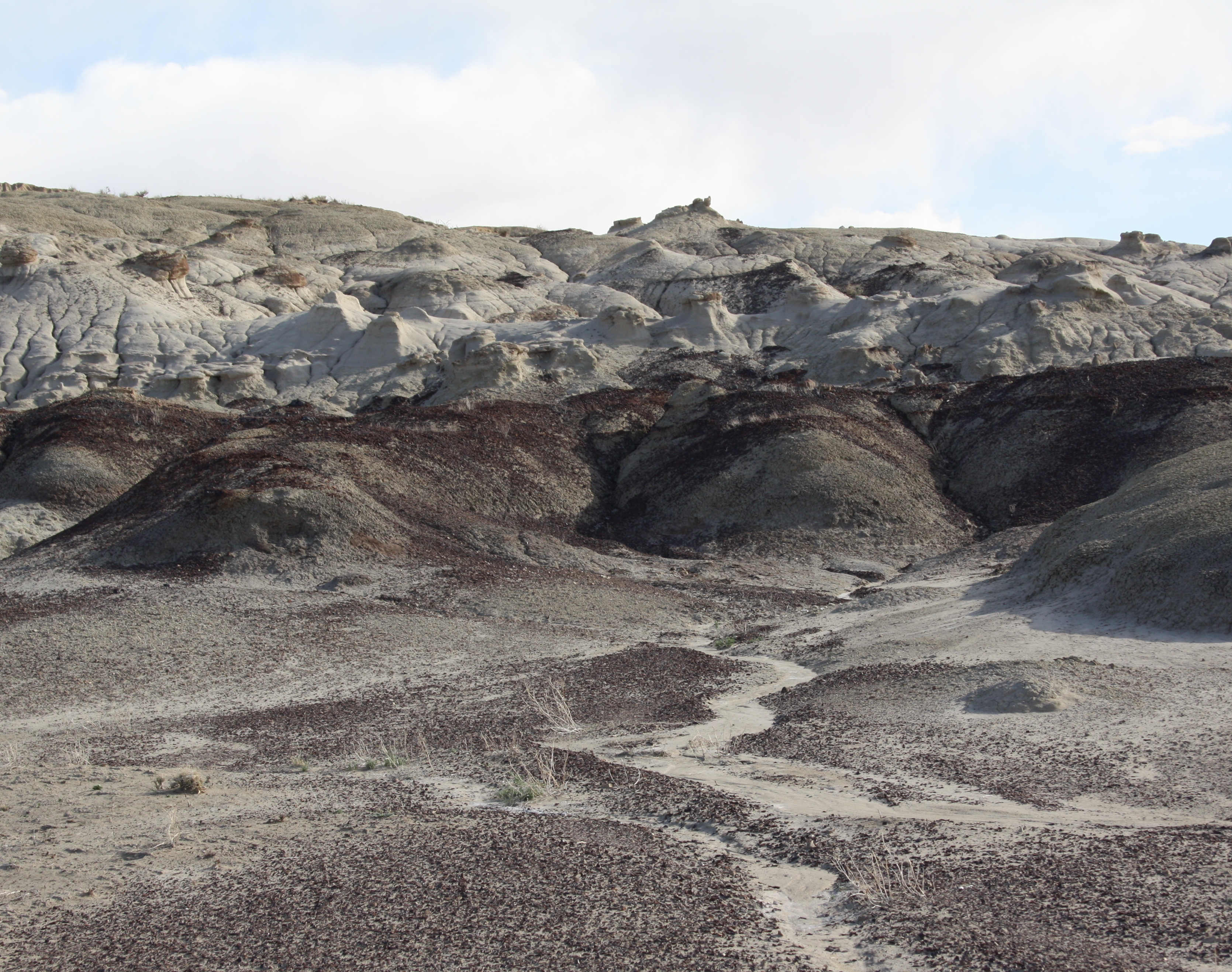 Bed of the late Cretaceous (Late Campanian) upper Fruitland Formation and Lower Kirtland Formation outcropping near Coal Creek in northern New Mexico. Taken during attempts to relocate the Titanoceratops holotype quarry.